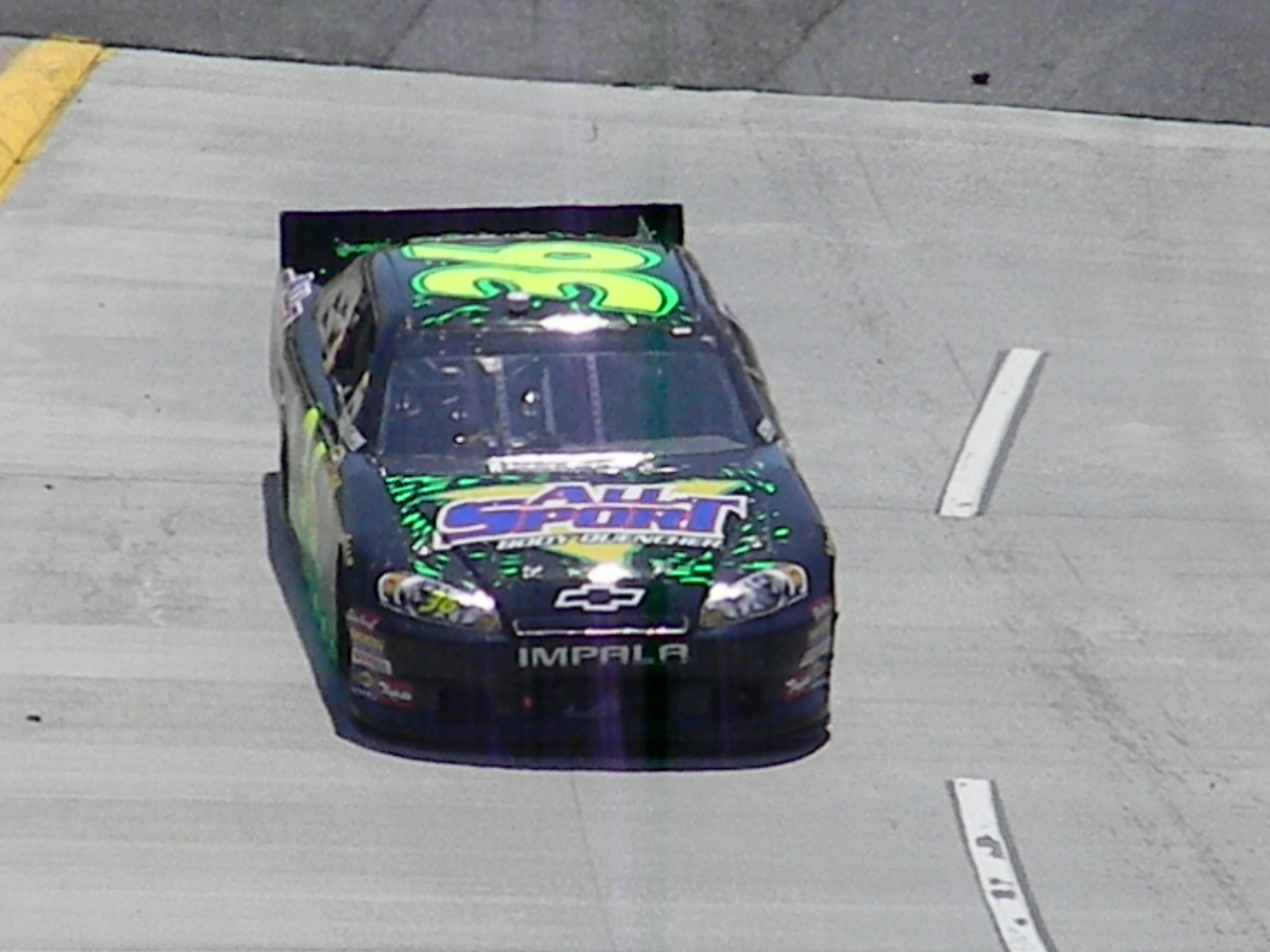 Dave Blaney drives the No. 36 All Sport Body Quencher Chevrolet for Tommy Baldwin Racing during the 2011 NASCAR Sprint Cup Series Goody's Fast Relief 500 at Martinsville Speedway, April 3 2011.